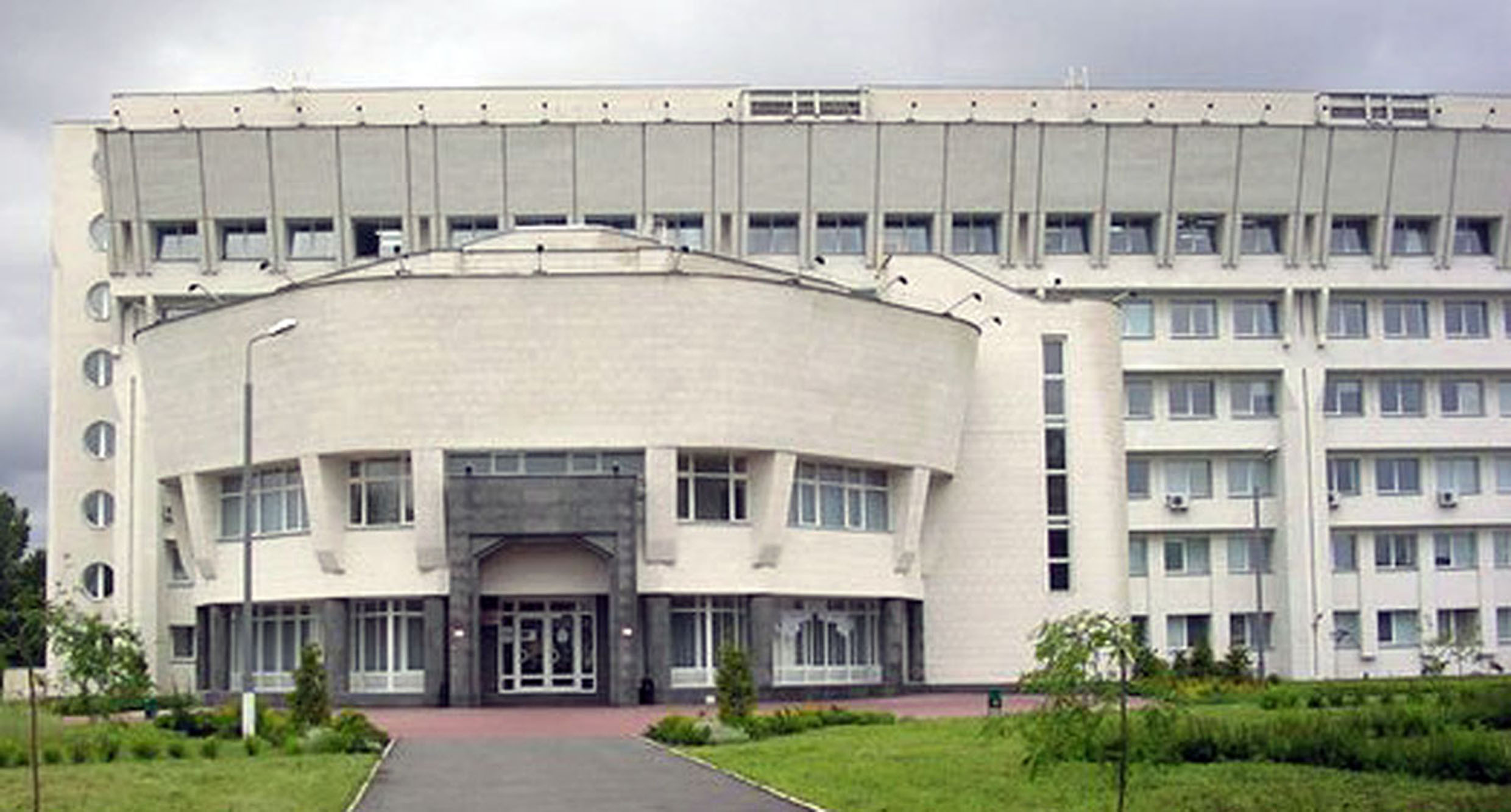 Корпус географічного факультету Київського національного університету ім. Тараса Шевченка ( збудовано в 2005 р.) - Корпус геофаку20.07.12